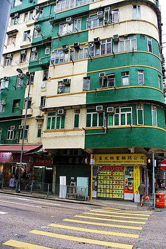 The apperance of subdivided flats